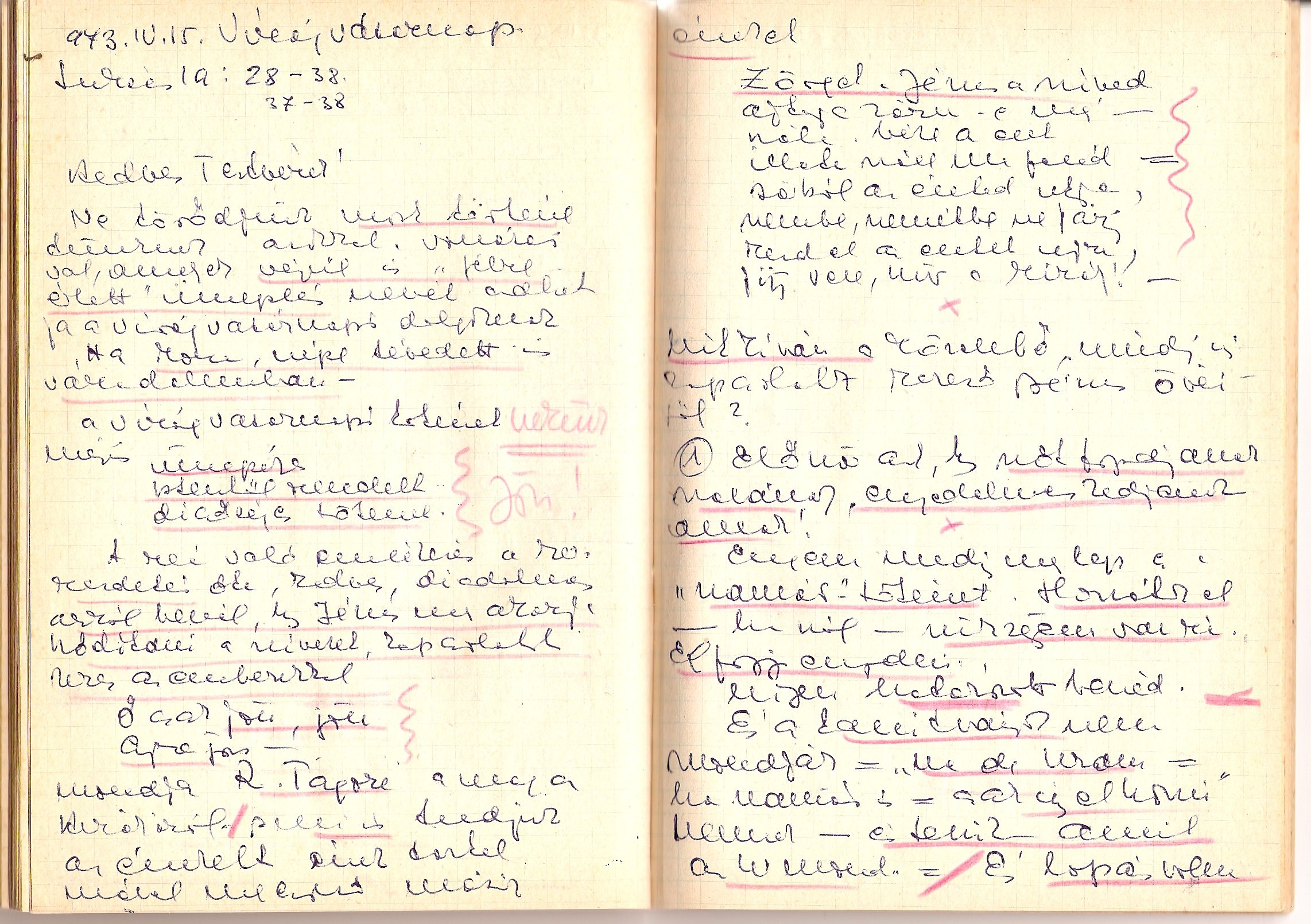 Notes by the Rev. Fejes Ádám.